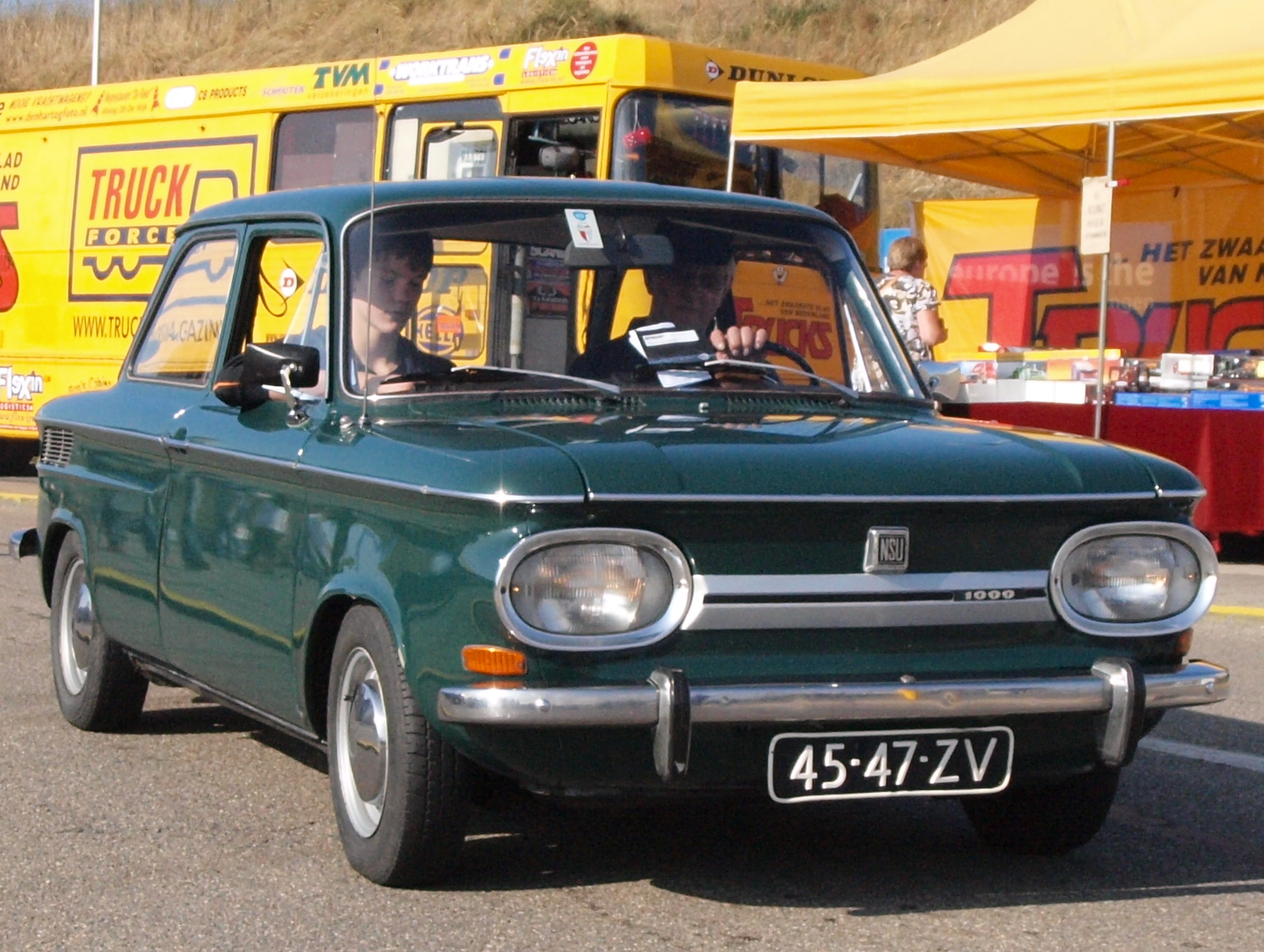 Photographed at the Nationaal Oldtimer Festival Zandvoort 2009, The Netherlands. OLYMPUS DIGITAL CAMERA